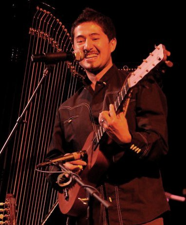 Photograph of Celso Duarte taken at the historic Capitol Theater, Olympia, Washington.